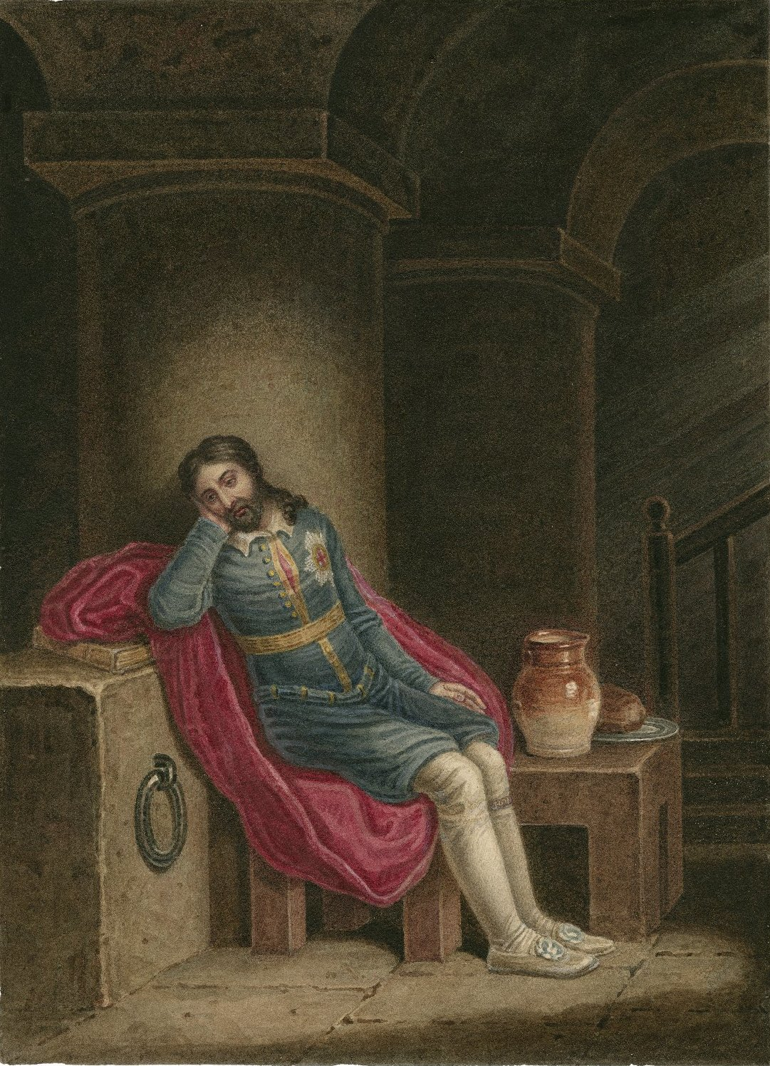 A watercolor of Richard II in prison at Pomfret Castle.